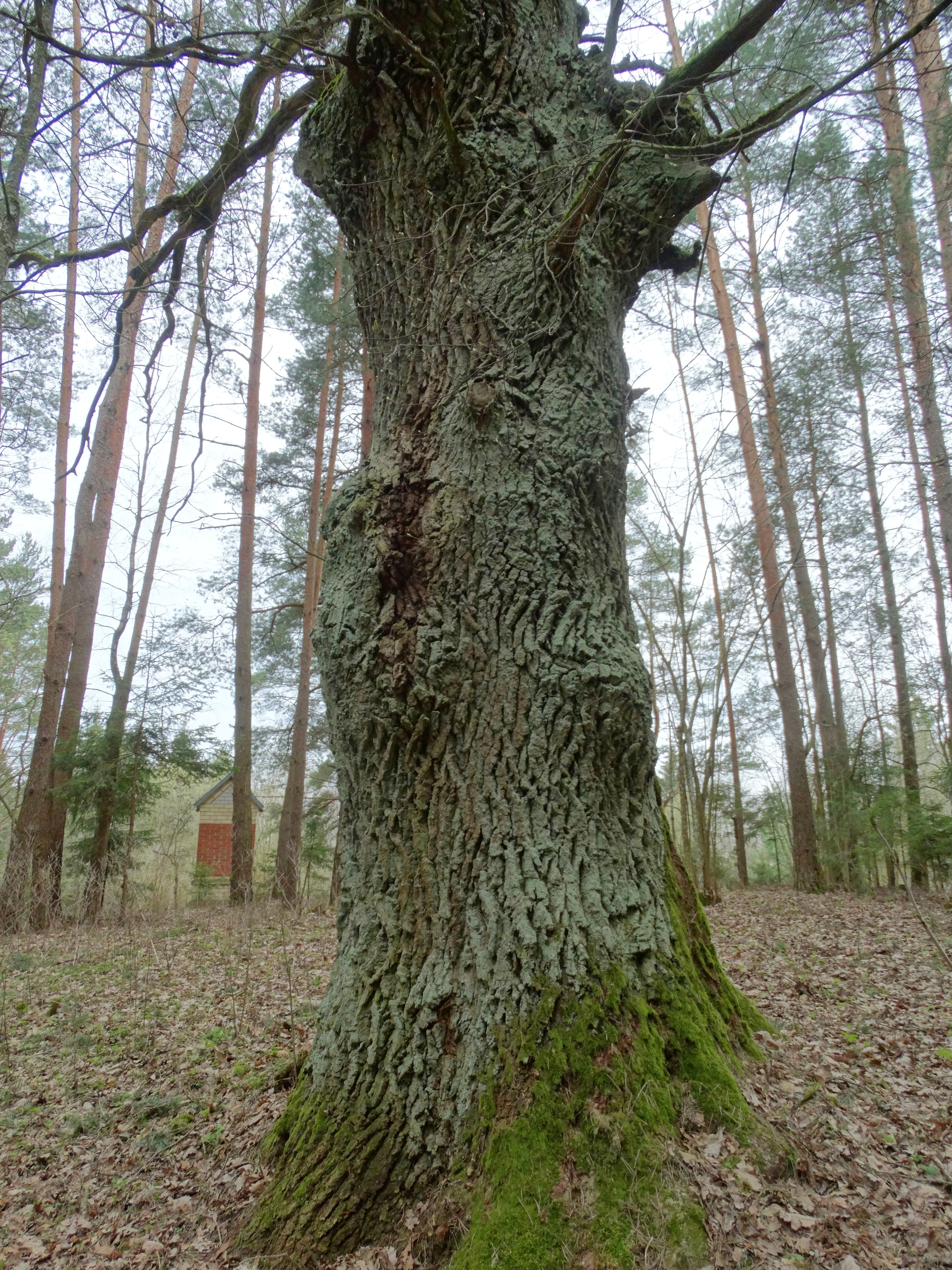 Oak, Vepriai, Ukmergė District, Lithuania